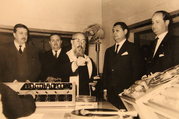 Archbishop Ildefonso Sansierra blessing LV1 facilities Radio Columbus